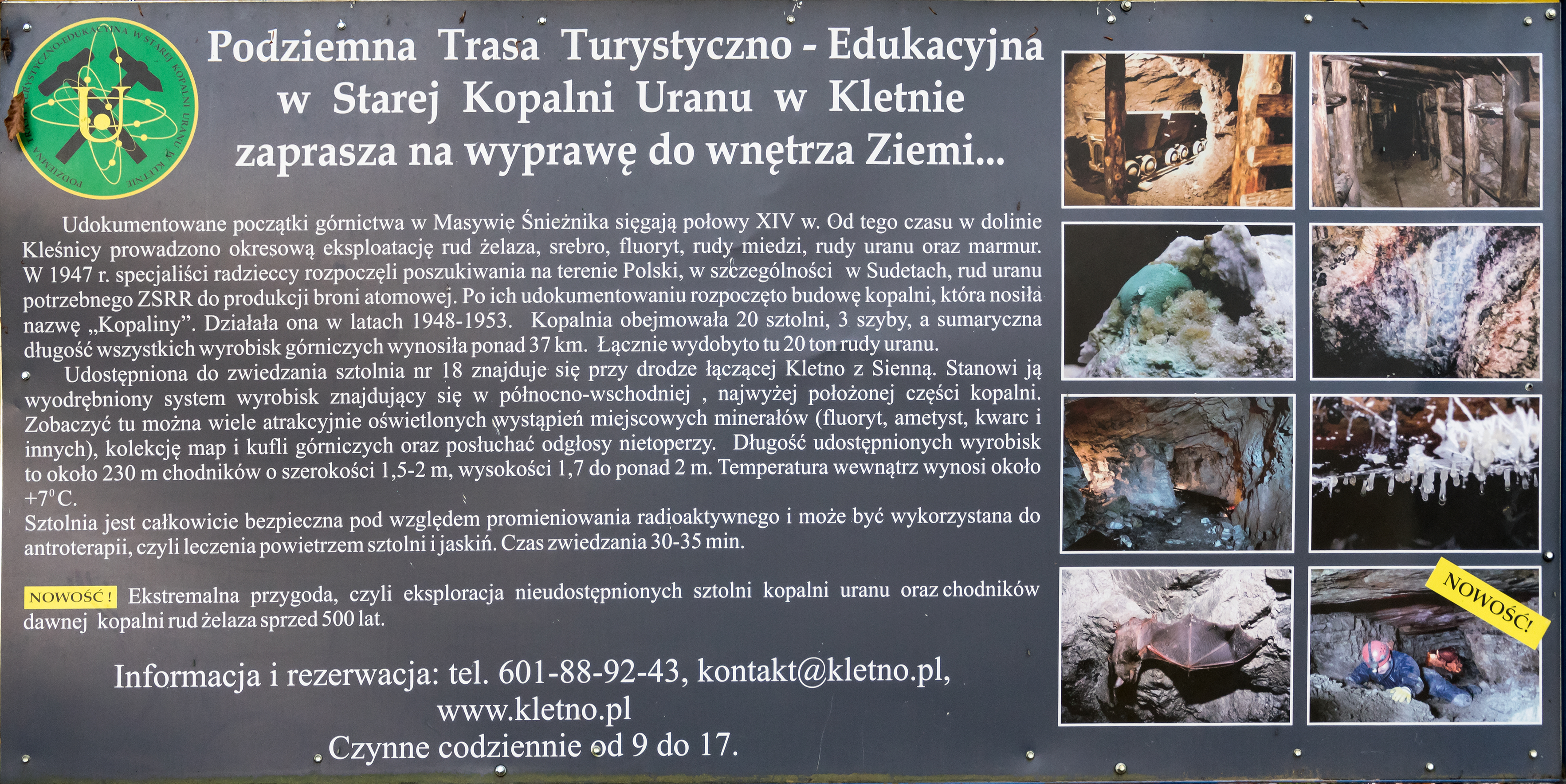 Former uranium mine in Kletno